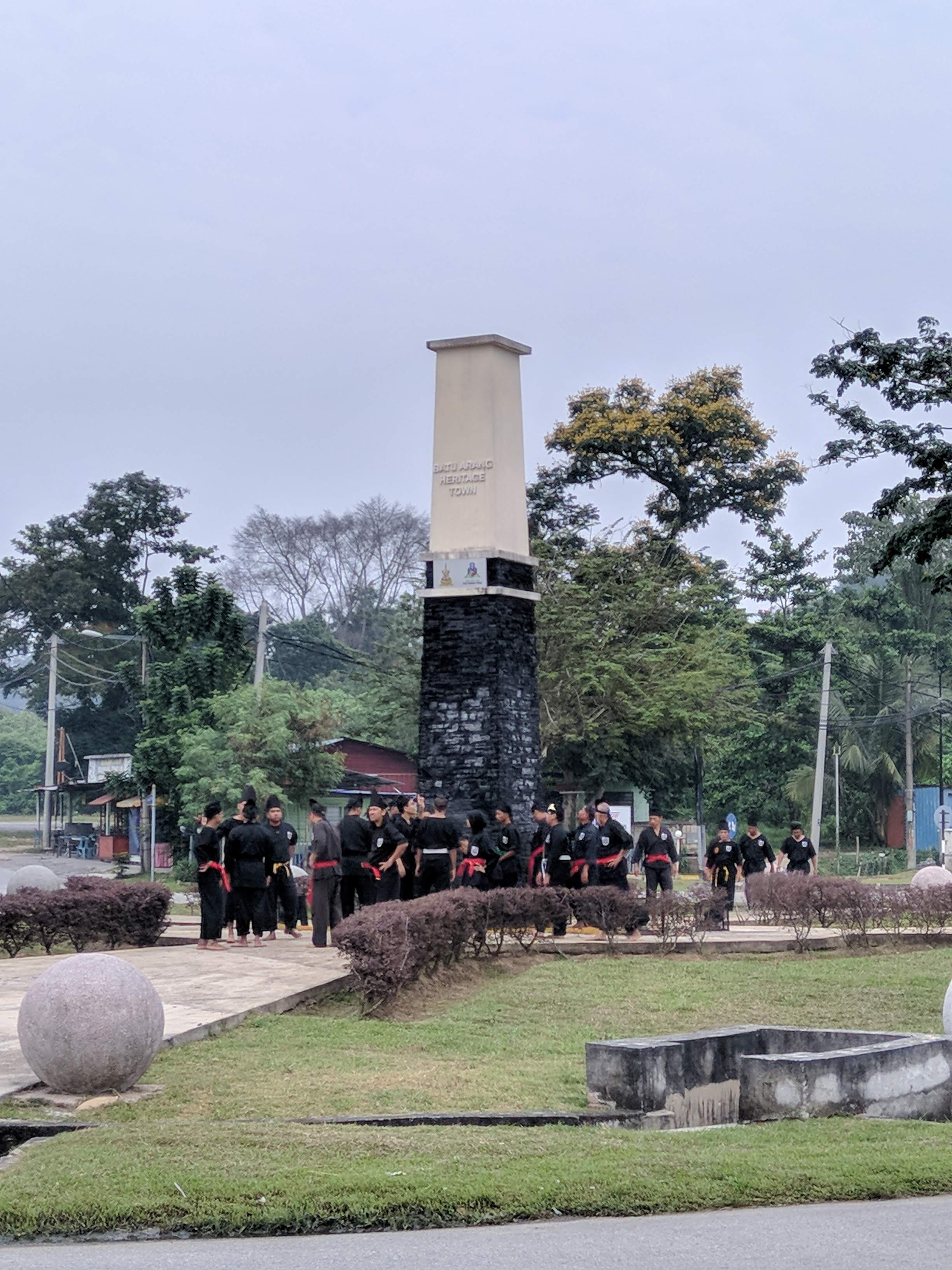 A monument that are the replica of chimney was erected on the roundabout in Batu Arang and the monument written "Batu Arang Heritage Town"